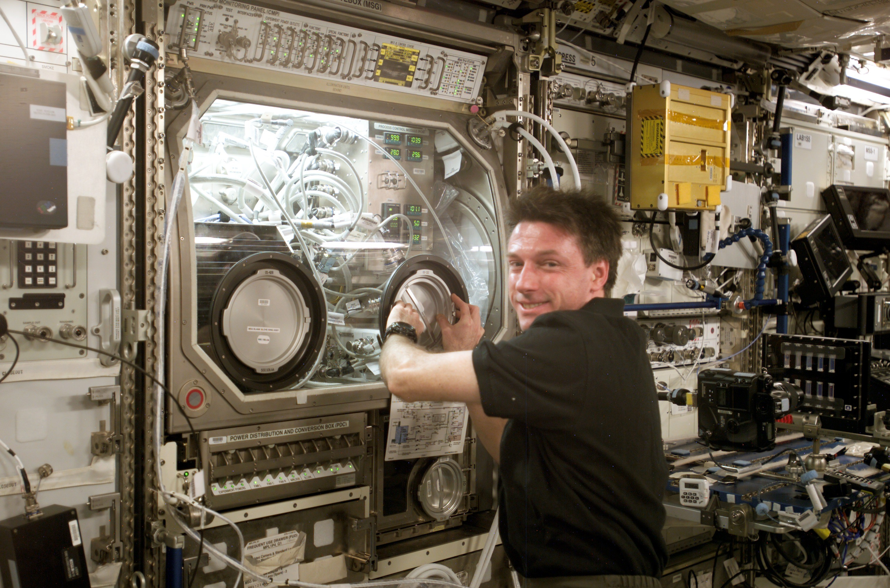 Expedition 8 Commander and Science Officer Michael Foale conducts an inspection of the Microgravity Science Glovebox/Exchangeable Standard Electronic Module (ESEM) in the Destiny laboratory of the International Space Station.